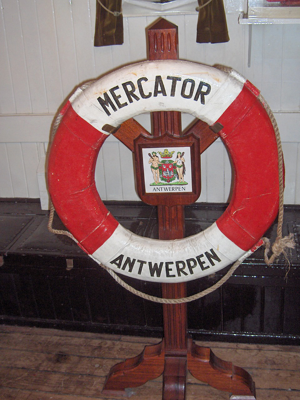 life buoy Own work - photo taken on 12 September 2005 by Georges Jansoone